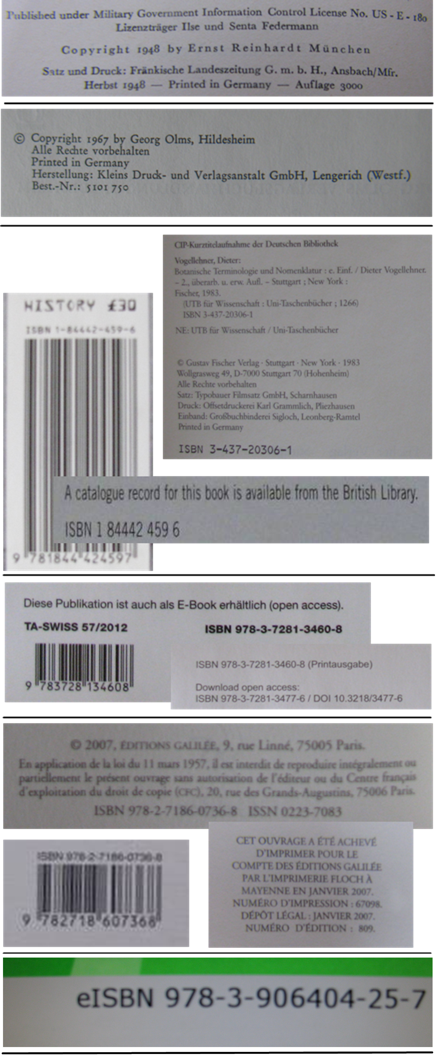 Urspruenge ISBN/13